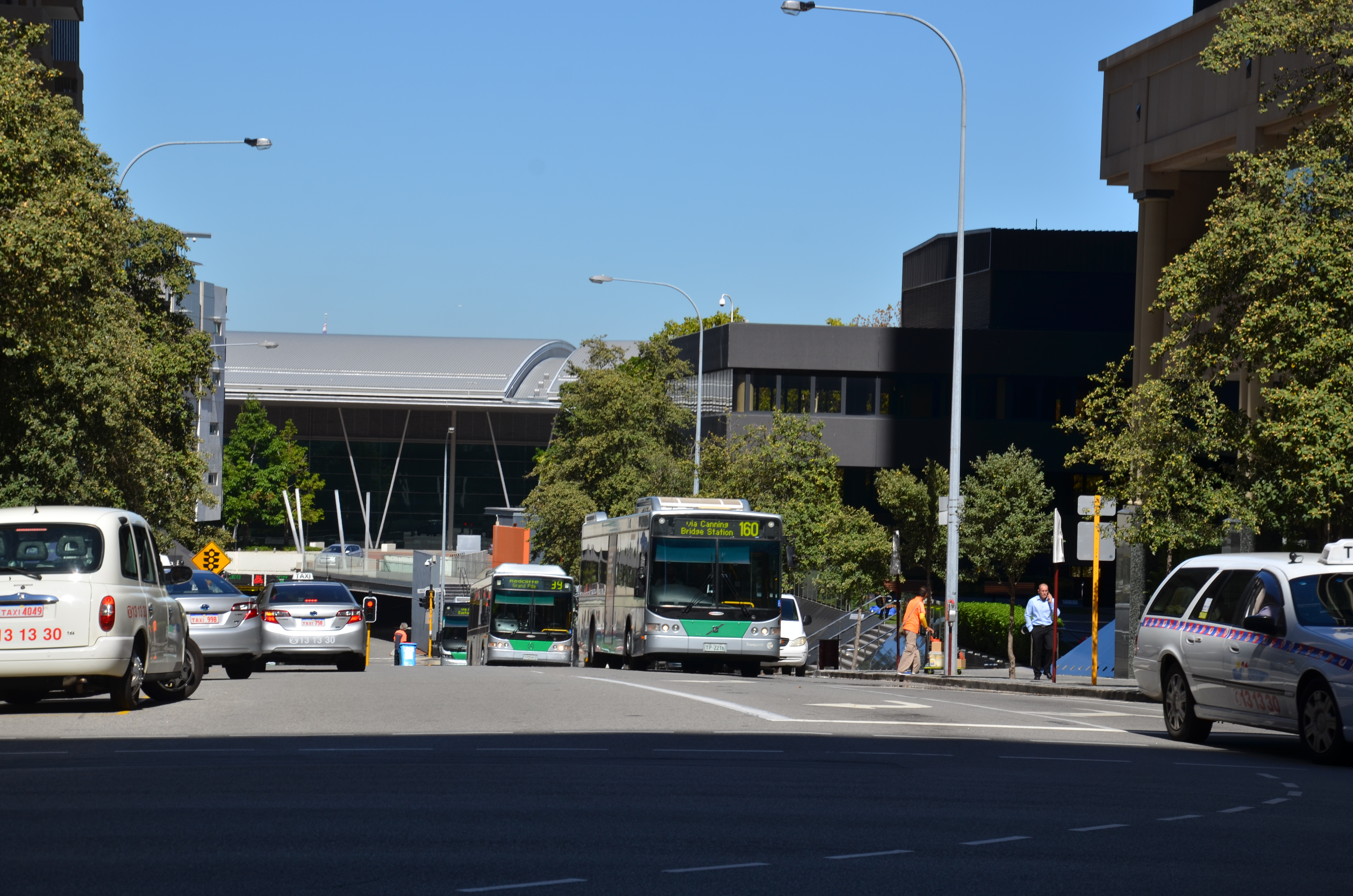 Looking south down Mill Street, Perth from St Georges Terrace, Perth in Perth, Western Australia